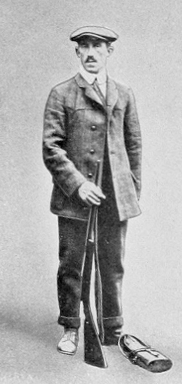 Gustaf Vilhelm Carlberg (April 5, 1880 – October 1, 1970) was a Swedish sports shooter and Olympic Champion.